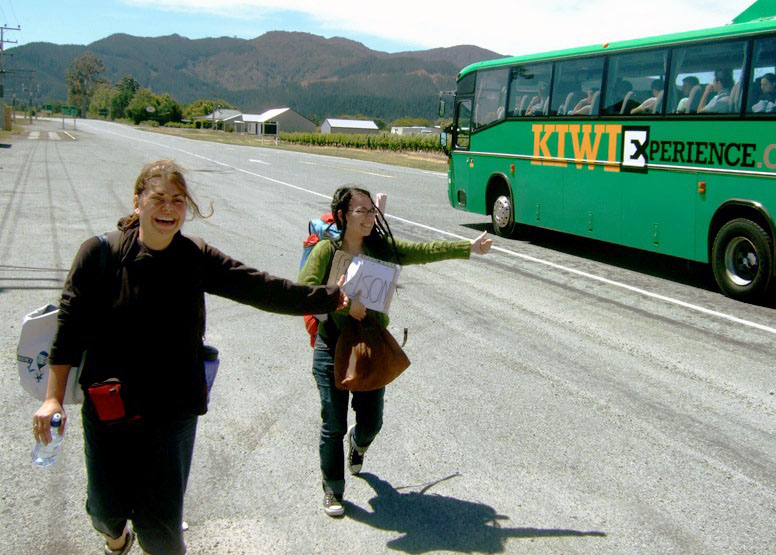 Elsa and amylin hitchhiking in New Zealand, November 28, 2006. Taken by Guaka.